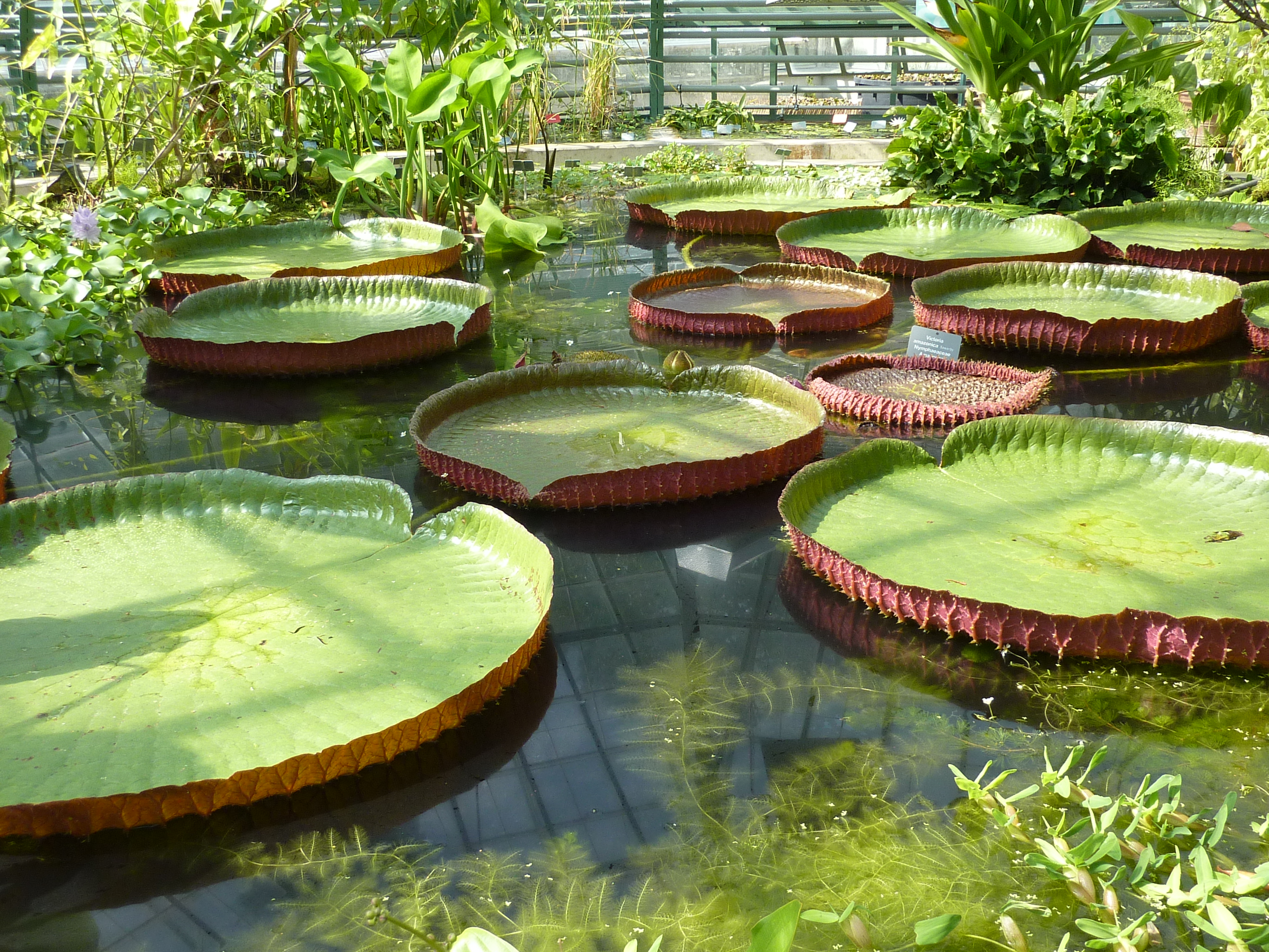 Victoria amazonica in the Victoria House of the Botanical Garden of the University of Basel.